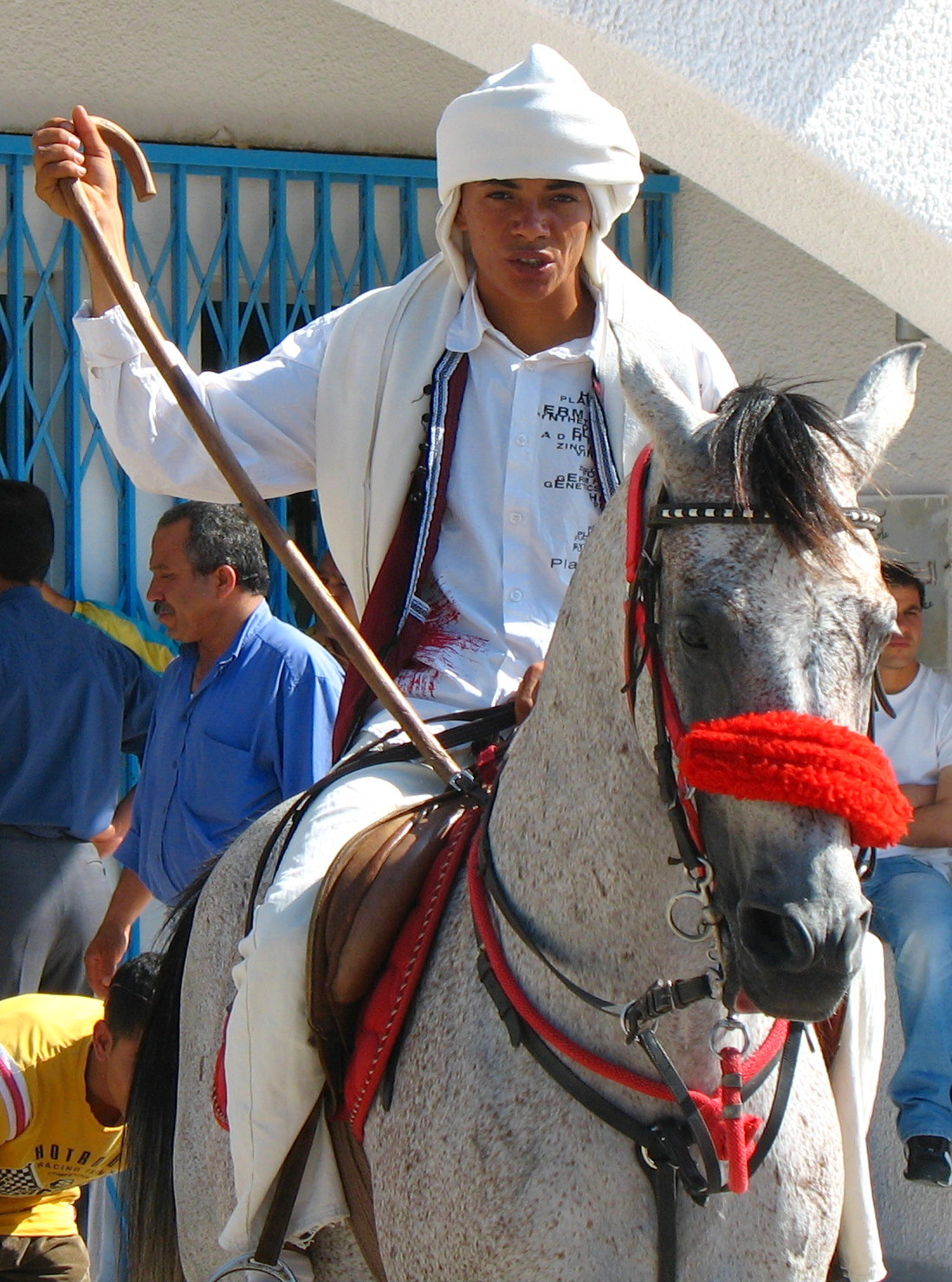 Fantasia in Midoun, Djerba (Tunisia).